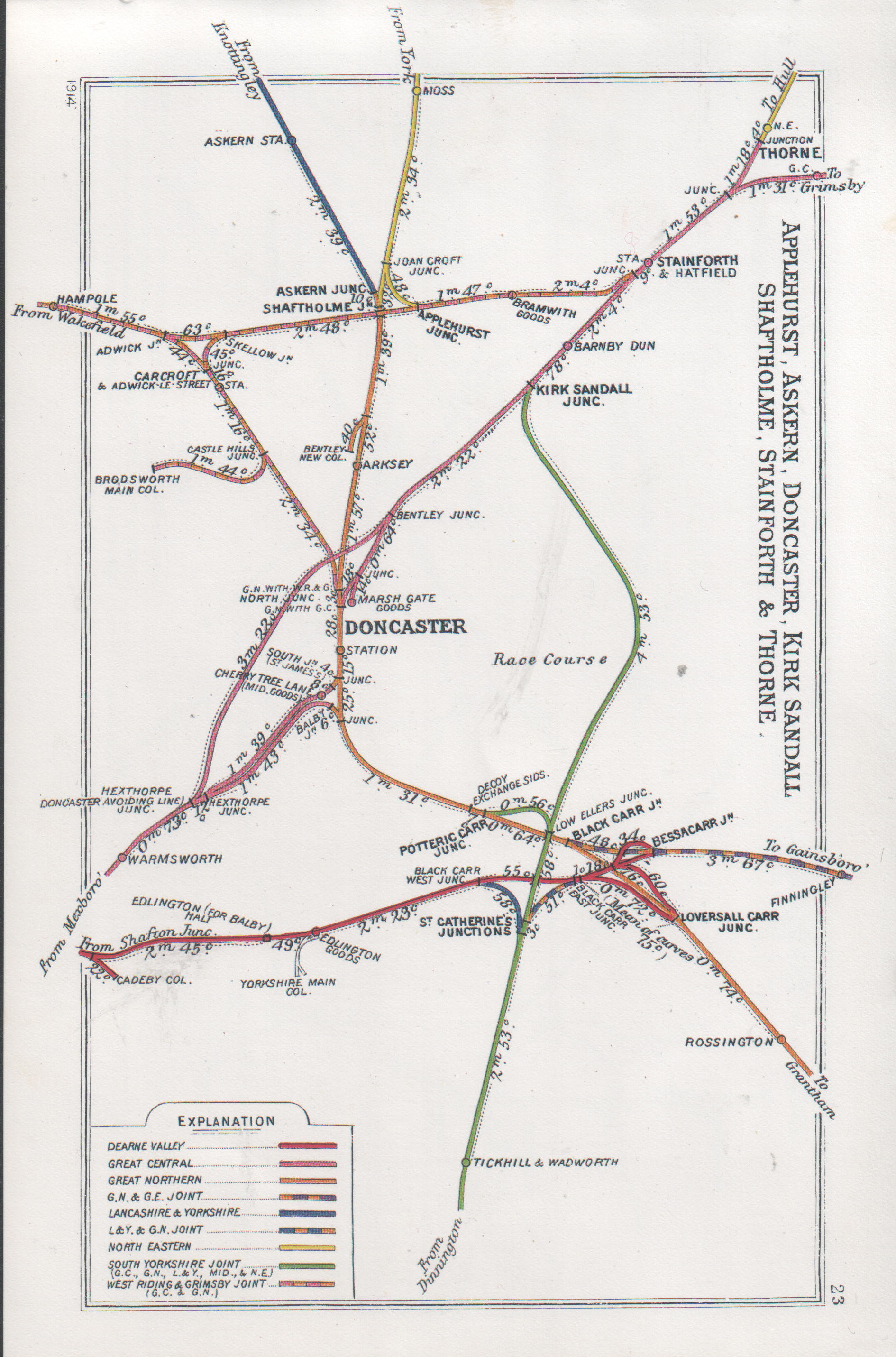 Pre Grouping railway junction around Applehurst, Askern, Doncaster, Kirk Sandall, Shaftholme, Stainforth & Thorne